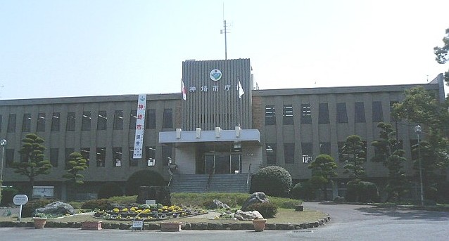 City hall of Kanzaki, Saga.